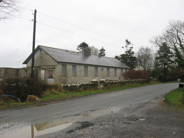 Garrysallagh National School, Mount Nugent A plaque on the front wall is dated 1896. The school opened on 3rd January 1897 and closed 1981, on 30th November which coincidentally is the date this picture was taken. There is planning permission to convert the school into a dwellinghouse.